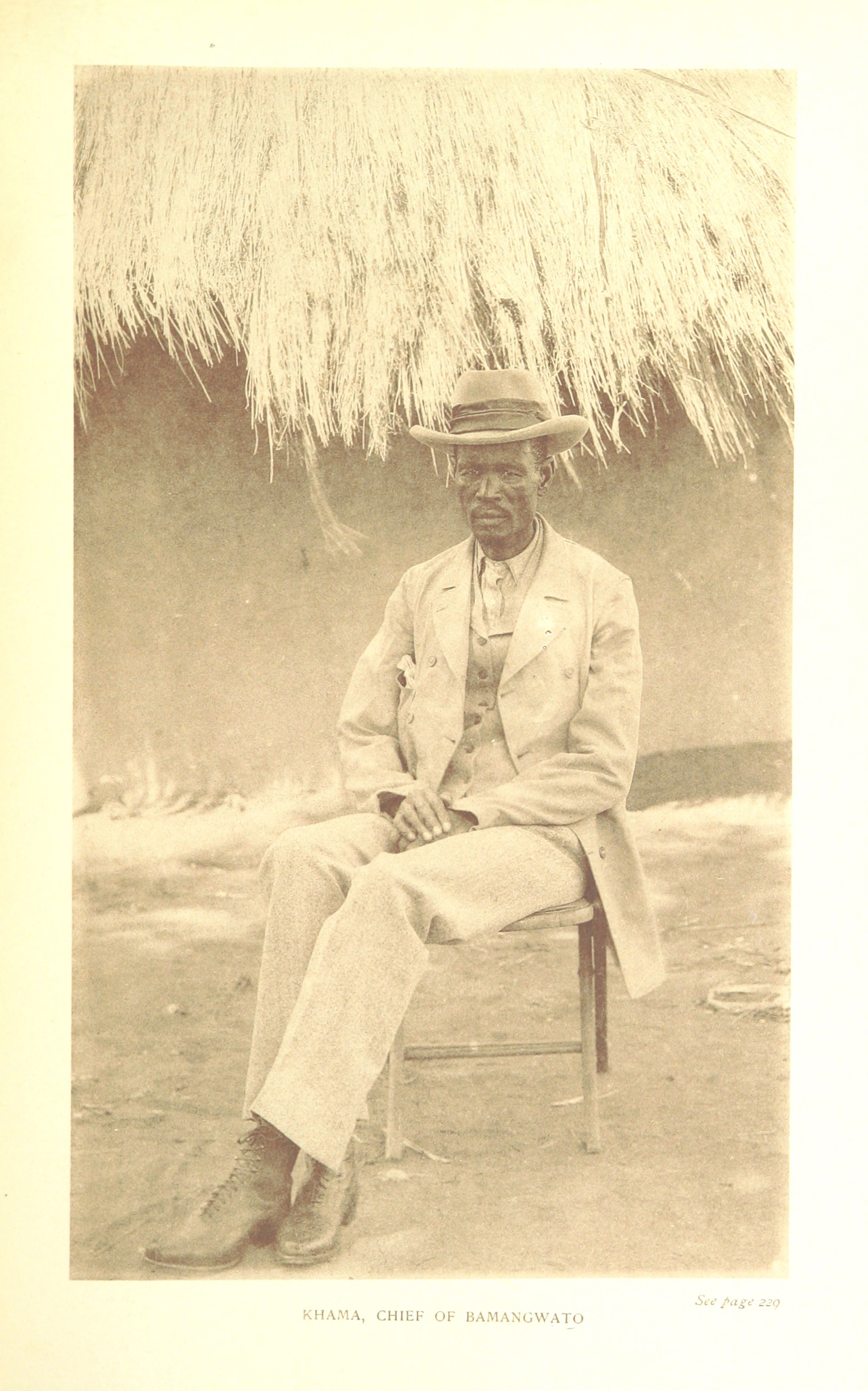 Image taken from: Khama Chief of Zamangwato Title: "Reality versus Romance in South Central Africa. An account of a journey across the Continent ... With ... illustrations, etc" Author: JOHNSTON, James - M.D., of Brown's Town, Jamaica Shelfmark: "British Library HMNTS 10097.dd.27." Page: 305 Place of Publishing: London Date of Publishing: 1893 Publisher: Hodder & Stoughton Issuance: monographic Identifier: 001888839 Explore: Find this item in the British Library catalogue, 'Explore'. Open the page in the British Library's itemViewer (page image 305) Download the PDF for this book Image found on book scan 305 (NB not a pagenumber)Download the OCR-derived text for this volume: (plain text) or (json) Click here to see all the illustrations in this book and click here to browse other illustrations published in books in the same year. Order a higher quality version from here.